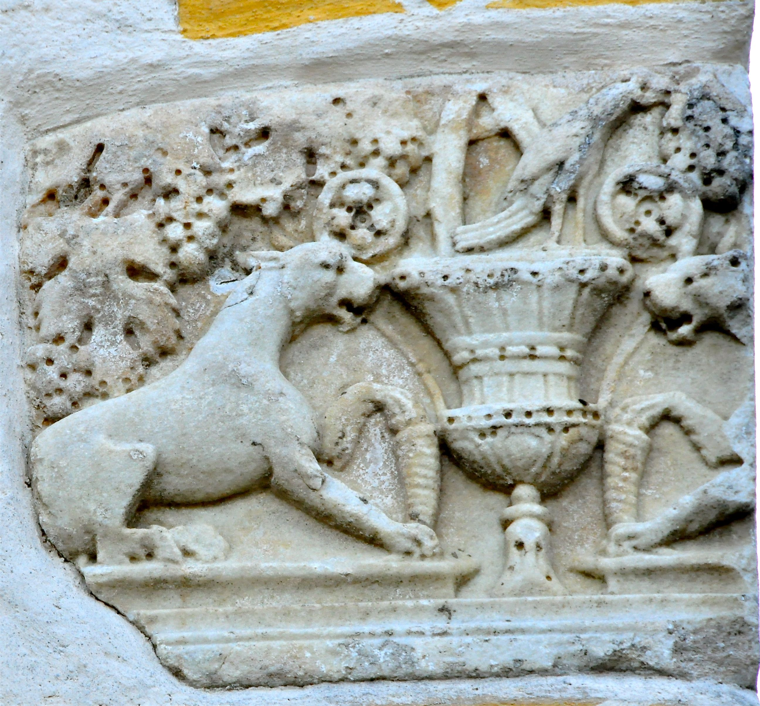 Ancient Roman stone fragment of a pan ceiling from a grave construction on the east wall of the parish church Saint Thomas in Sankt Thomas, municipality Magdalensberg, district Klagenfurt Land, Carinthia, Austria, EU